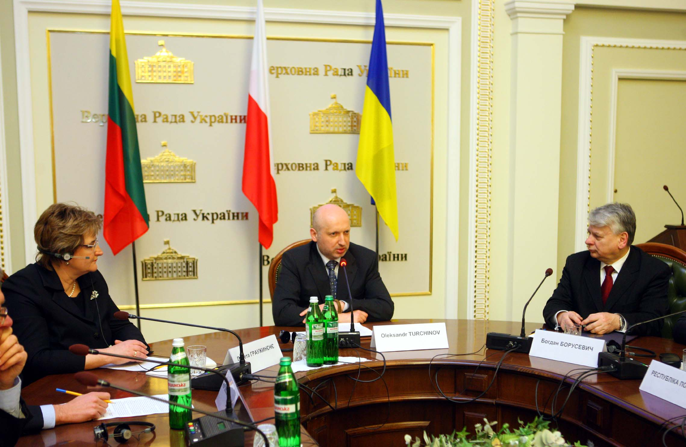 Meeting of the Presidium of Parliamentary Assembly of Poland (Bogdan Borusewicz), Lithuania (Loreta Graužinienė) and Ukraine with acting Ukrainian President Oleksandr Turchynov in Kiev